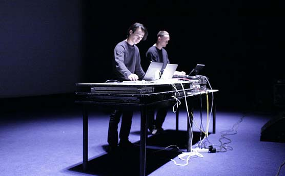 April 19, Moscow, live on Abracadabra fest.